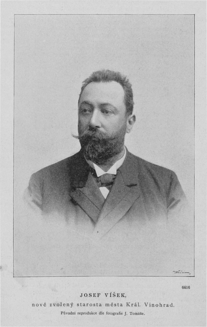 Photo of Josef Víšek (1853-1911), Czech entrepreneur, mayor of Vinohrady (present-day part of Prague) and a Sokol official.